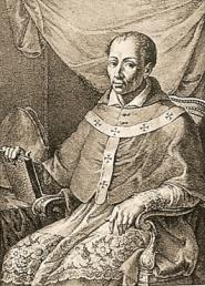 Foto of Face of Antoni Agustin Albanell